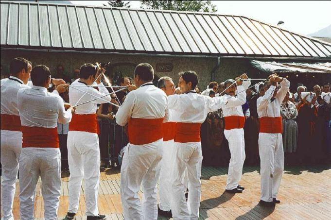 the bacchu-ber, Folk Sword dance in ther Hautes-Alpes, France, Pont-de-cervieres - 16th August 2003